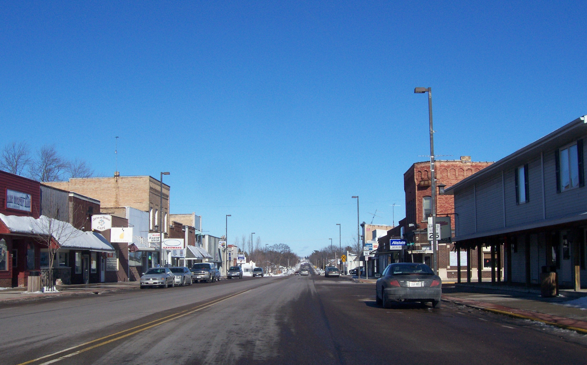 Looking north at the downtown for Manawa, Wisconsin on Wisconsin Highway 22 and Wisconsin Highway 110.